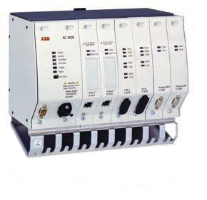 ABB Freelance AC 800F Controller